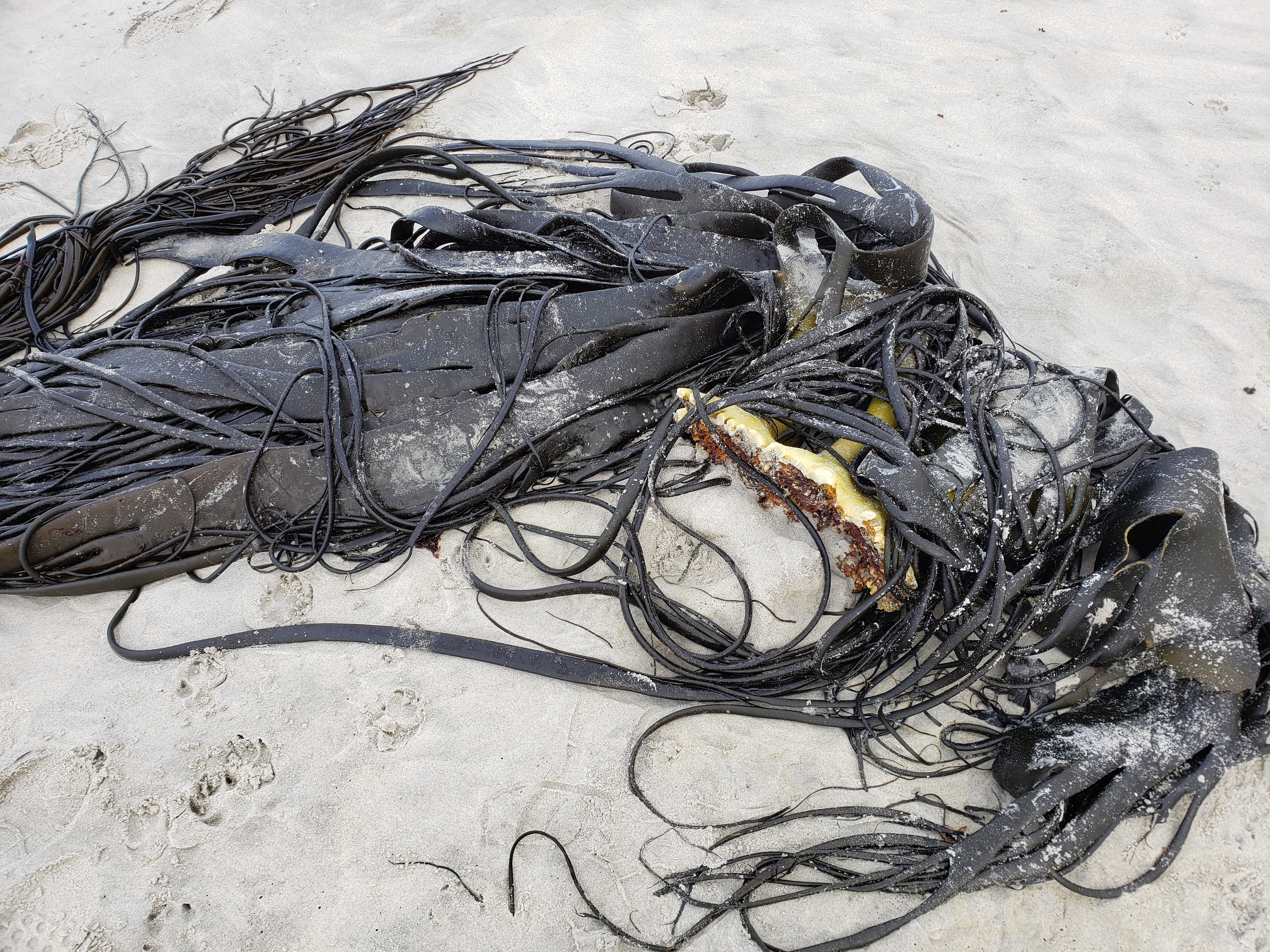 Beachcast Durvillaea antarctica at St Kilda Beach, Dunedi